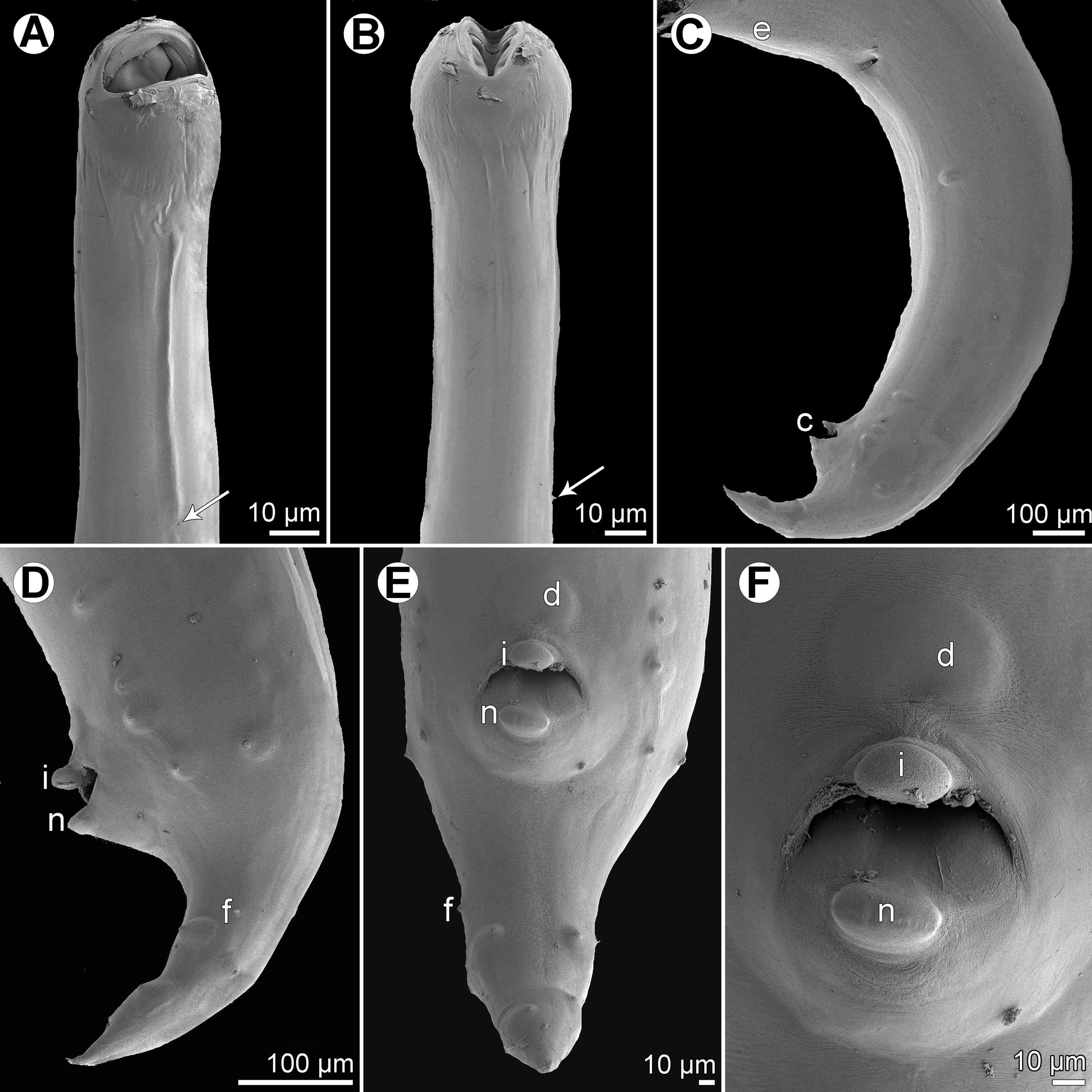 Figure 3 from paper Cucullanus austropacificus Moravec & Justine, 2018, scanning electron micrographs. (A, B) Anterior end of body, sublateral and dorsoventral views, respectively (arrows indicate deirids; note presence of cervical alae); (C) posterior end of male, lateral view; (D, E) tail of male, lateral and ventral views, respectively; (F) region of cloaca, ventral view (higher magnification). (c) cloaca; (d) median precloacal papilla-like formation; (e) ventral sucker; (f) phasmid; (i) median outgrowth of anterior cloacal lip; (n) median outgrowth of posterior cloacal lip.